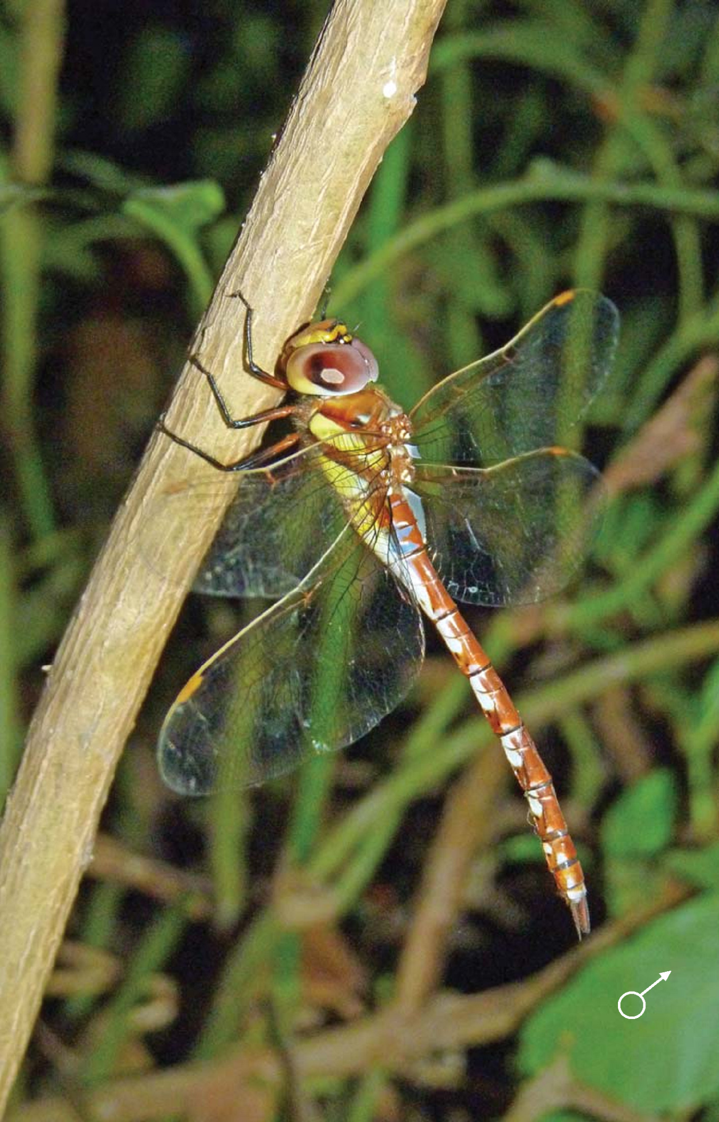 Anaciaeschna jaspidea male